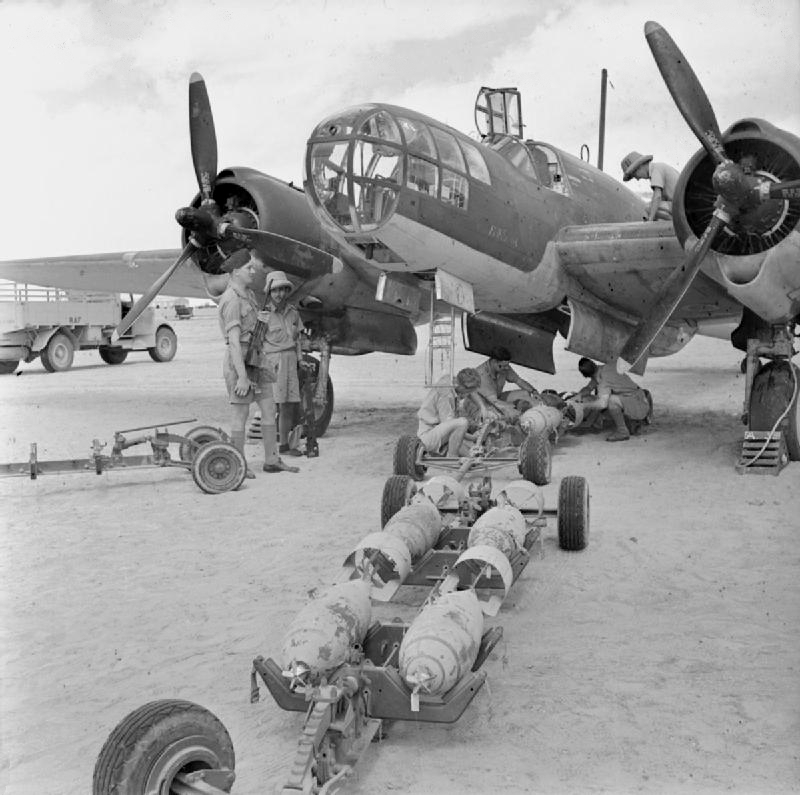 Armourers preparing to load a Martin Maryland of No. 39 Squadron RAF with its full complement of eight 250-lb GP bombs, at a landing ground in the Western Desert. No. 39 operated the Bristol Blenheim and Martin Maryland out of Egypt before converting to the Bristol Beaufort in August–September 1941.